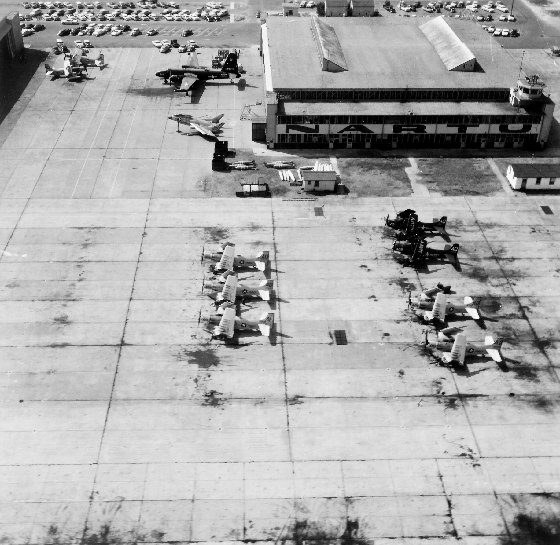 View of the Naval Air Reserve Training Unit hangar (later Hangar 113) of the Naval Air Station Jacksonville, Florida (USA), in 1958. Visible are nine Douglas AD-6 Skyraiders, two attack squadron VA-175 Devil's Diplomats, Carrier Air Group 17 (CVG-17), and two of Air Task Group 202 (ATG-202). Also a Vought F7U Cutlass, and a Lockheed P2V-4 Neptune (BuNo. 124218) are parked on the apron.